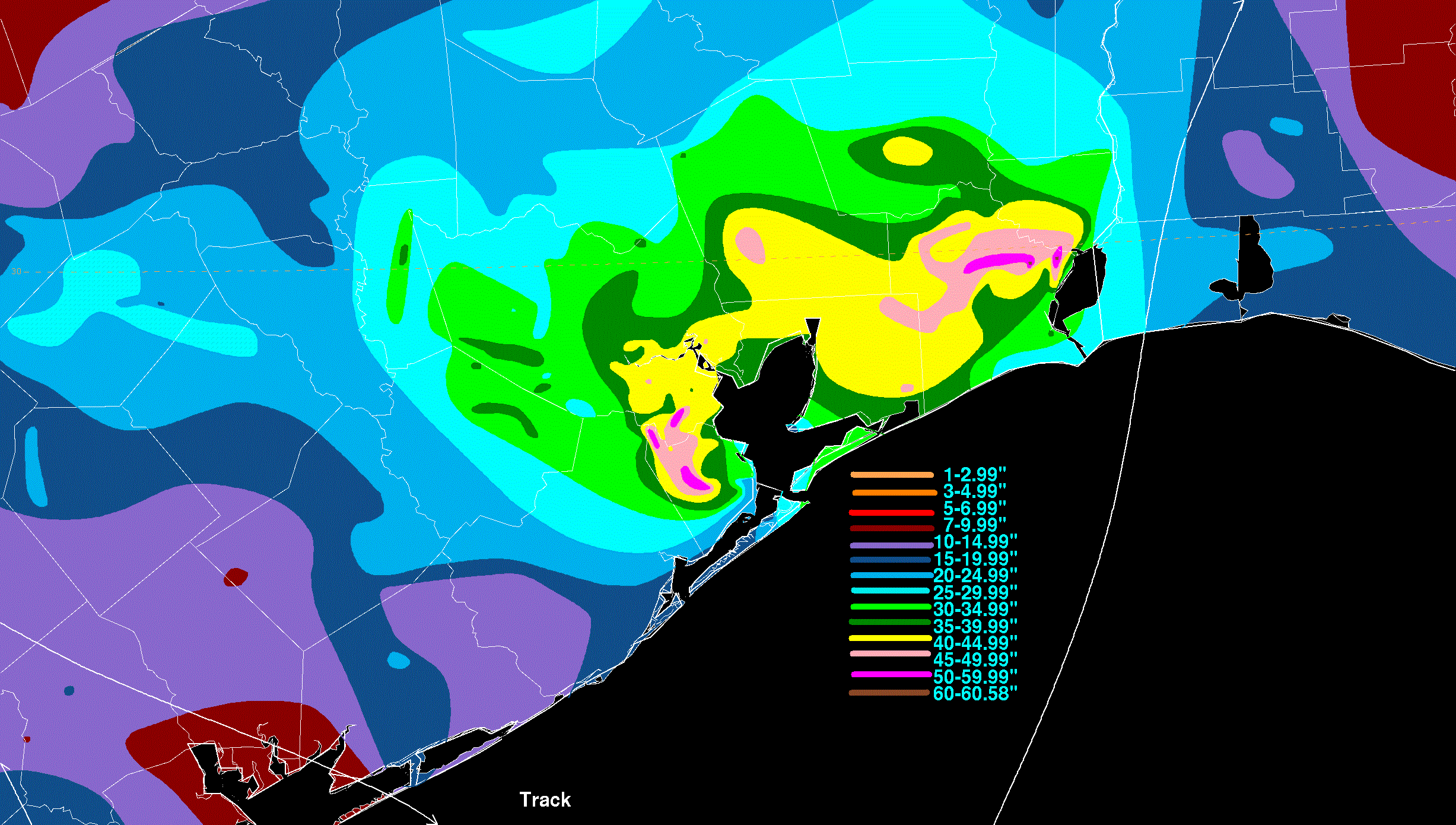 Enlarged rainfall graphic for Hurricane Harvey in Southeast Texas